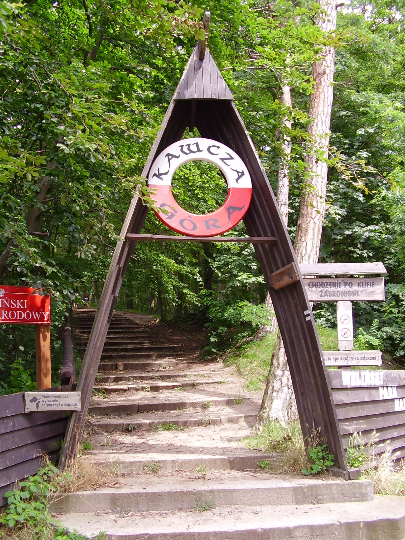 Entrance to Kawcza Góra in Międzyzdroje (Poland)